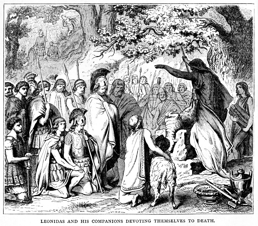 Leonidas and his companions devoting themselves to death